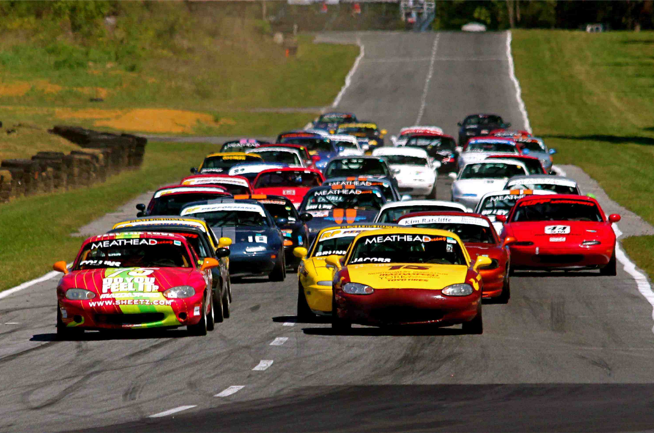 Spec Miata start at SCCA MARRS Labor Day event at Summit Point with MEATHEAD Racing cars leading the field